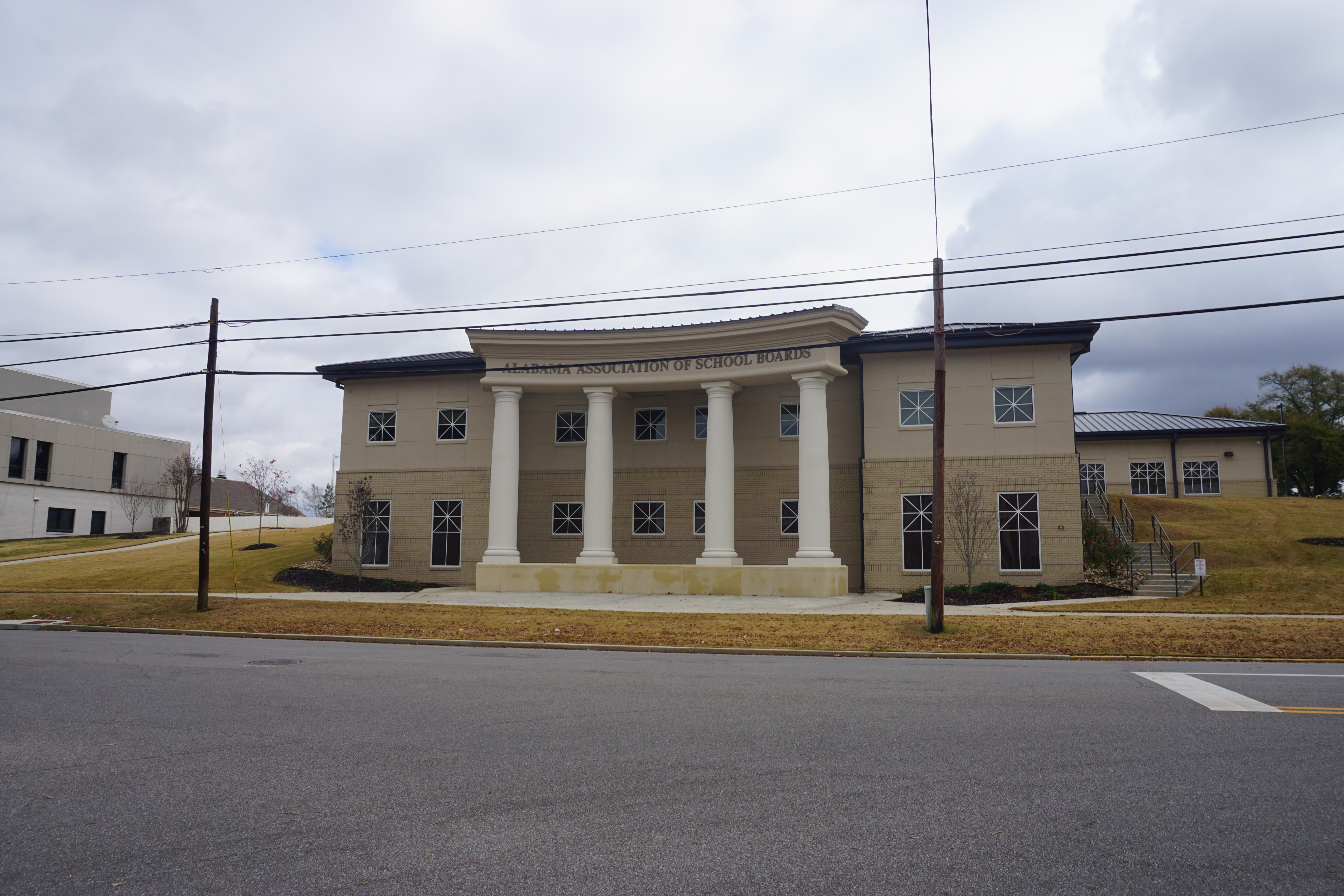 The Alabama Association of School Boards building in Montgomery, Alabama (United States).